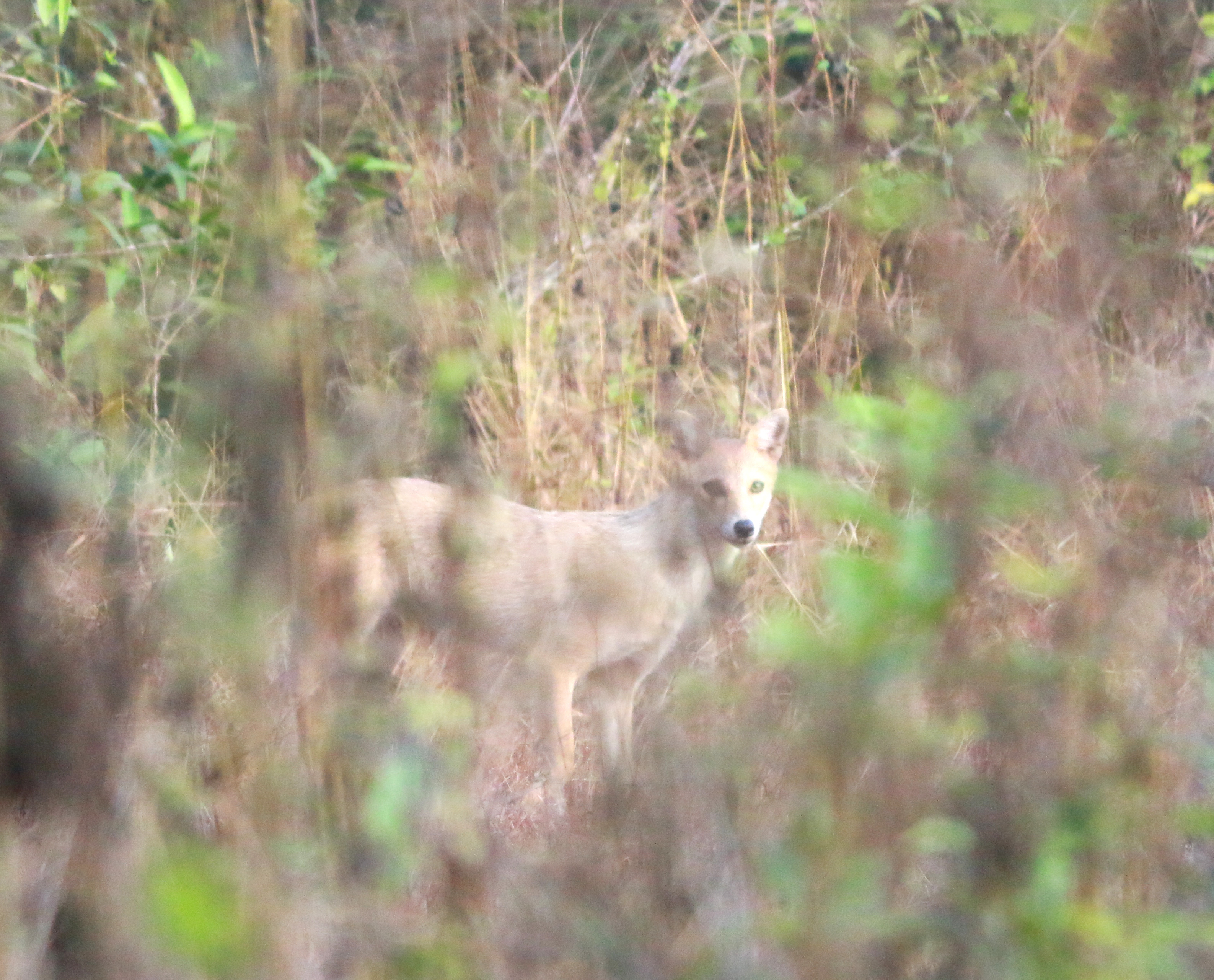 കുറുനരി,Golden Jackal or Indian Jackal, canis aureus indicus , jackal in white colour പാലക്കാട് ജില്ലയിലെ കൂറ്റനാട് നിന്നും പകർത്തിയത്